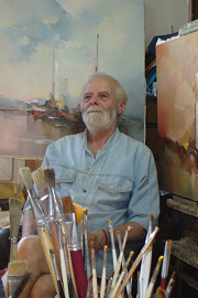 Julio Cabral Portrait